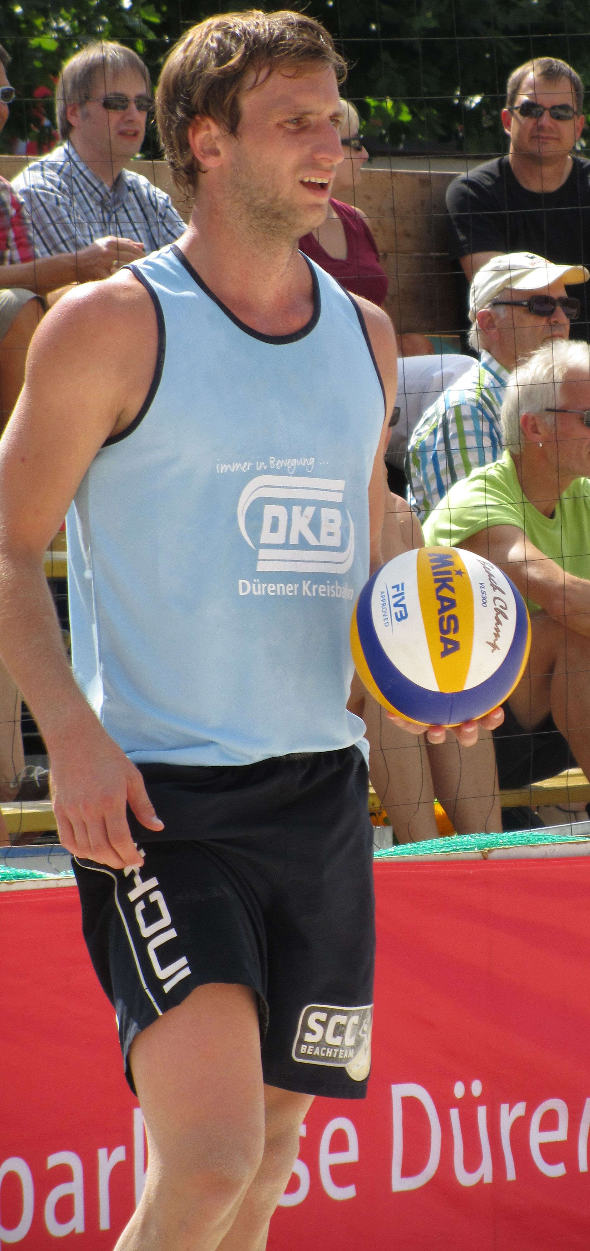 the German beach volleyball player Tilo Backhaus at the DKB Beach Cup 2011 in Düren, Germany